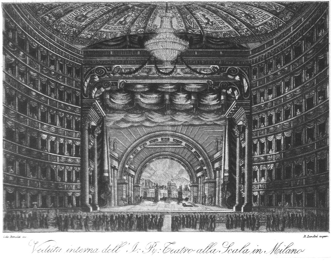 "veduta interna dell'I. R. teatro alla Scala", Gilio Rimoldi inc., si scorge la scena del Sanquirino per "Gli ultimi giorni di Pompei" di Pacini (1827). il boccascena mostra ancora le decorazioni ideate dal Piermarini